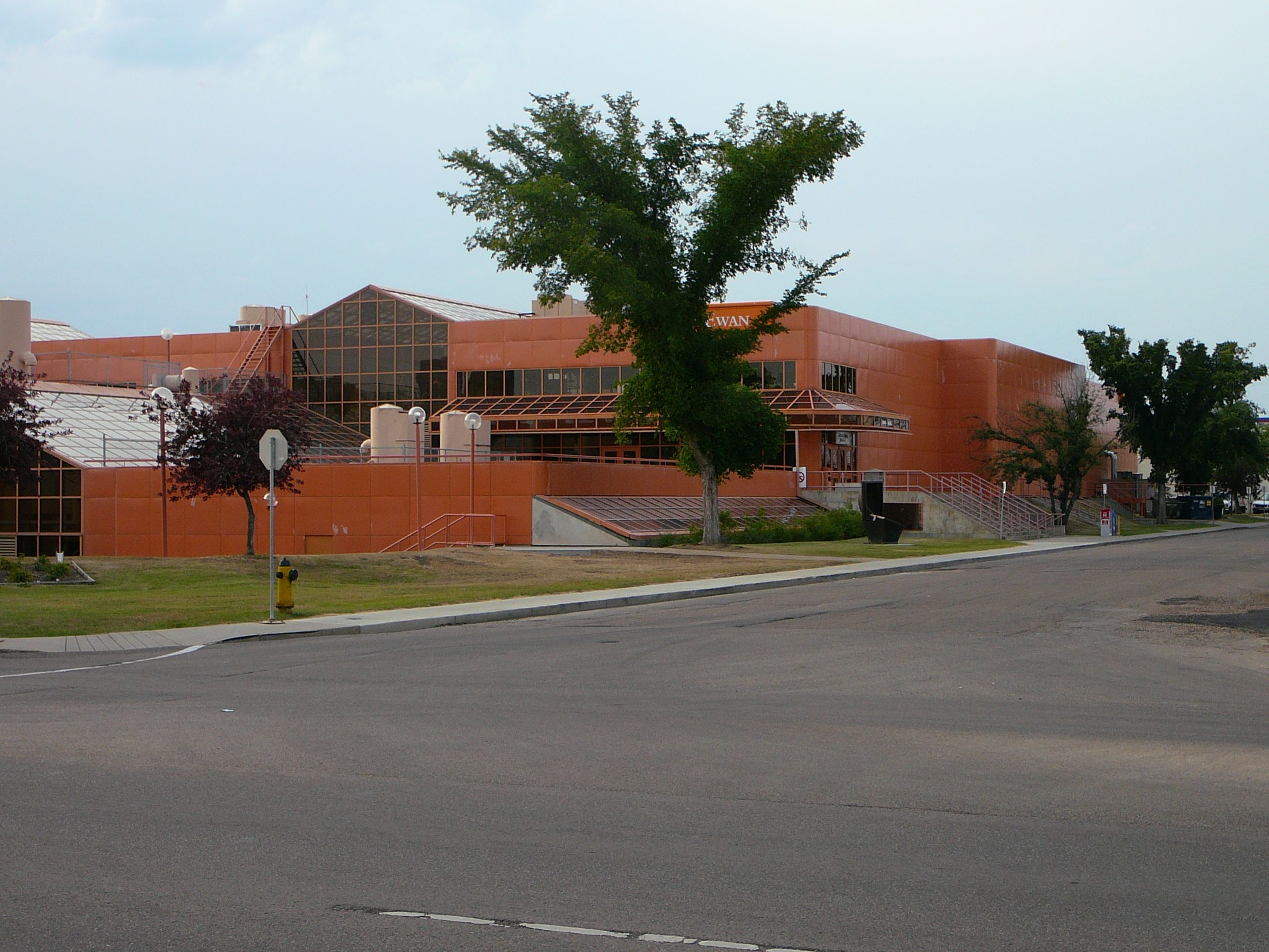 MacEwan Centre for the Arts, taken from the southeast